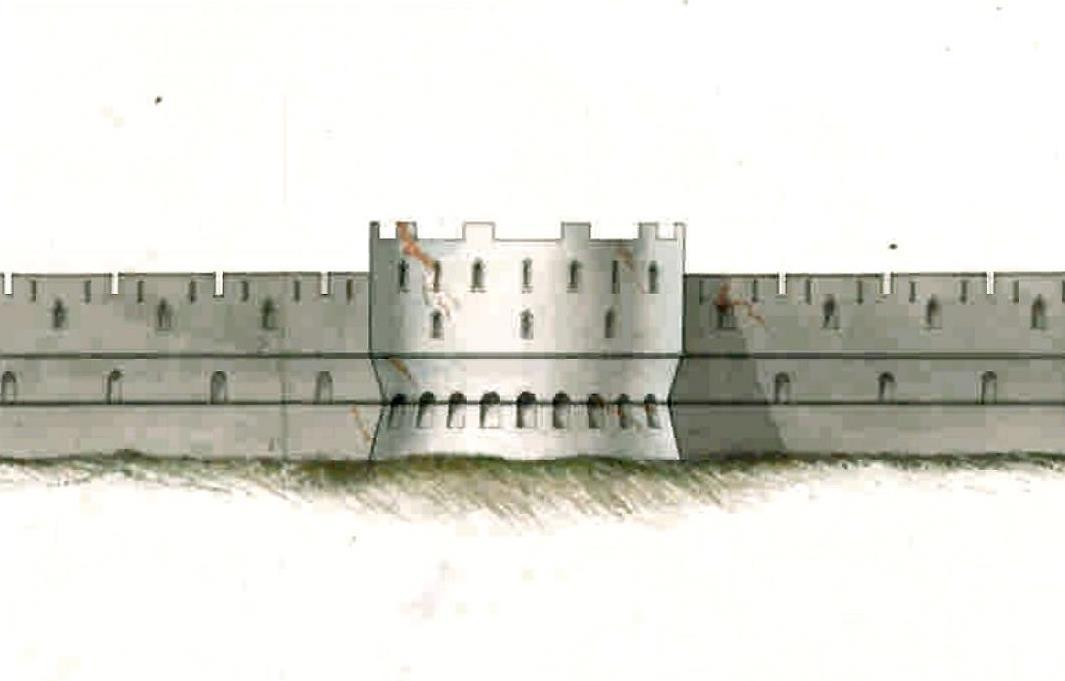 Bird tower of Kitai-gorod. Moscow.